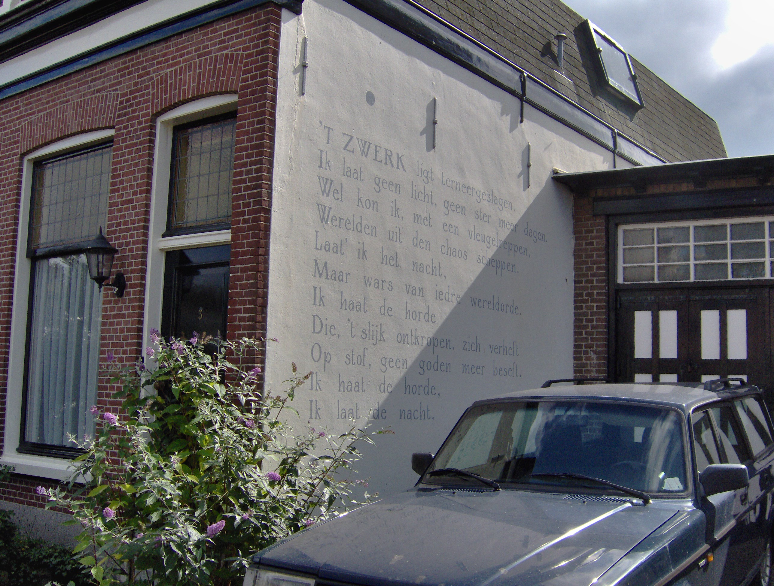 The poem 'T ZWERK ligt teneergeslagen of the Dutch poet J. Slauerhoff on a wall of the building at the Utrechtse Jaagpad 3, Leiden, The Netherlands.